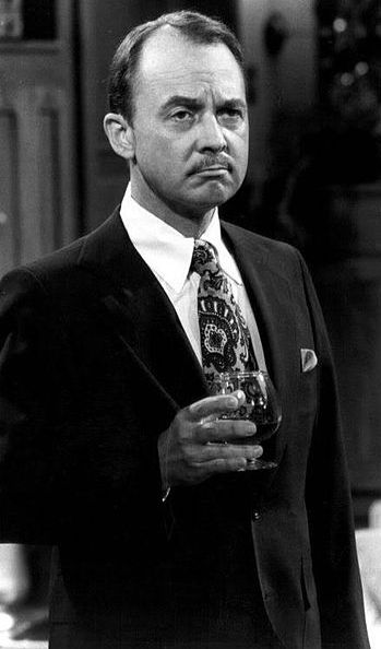 Photo of John Hillerman and Betty White from The Betty White Show.